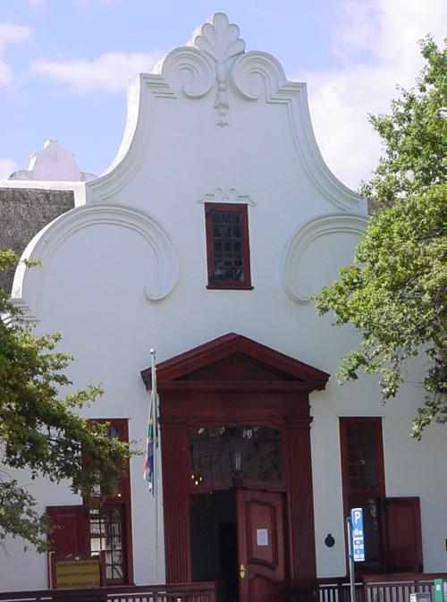 The Stellenbosch office of the Cape Winelands District Municipality at 46 Alexander Street is a modern building in the Cape Dutch Revival style protected to preserve the harmonious appearance of buildings facing the Braak. This media shows a South African Protected Site with SAHRA file reference 9/2/084/0070.